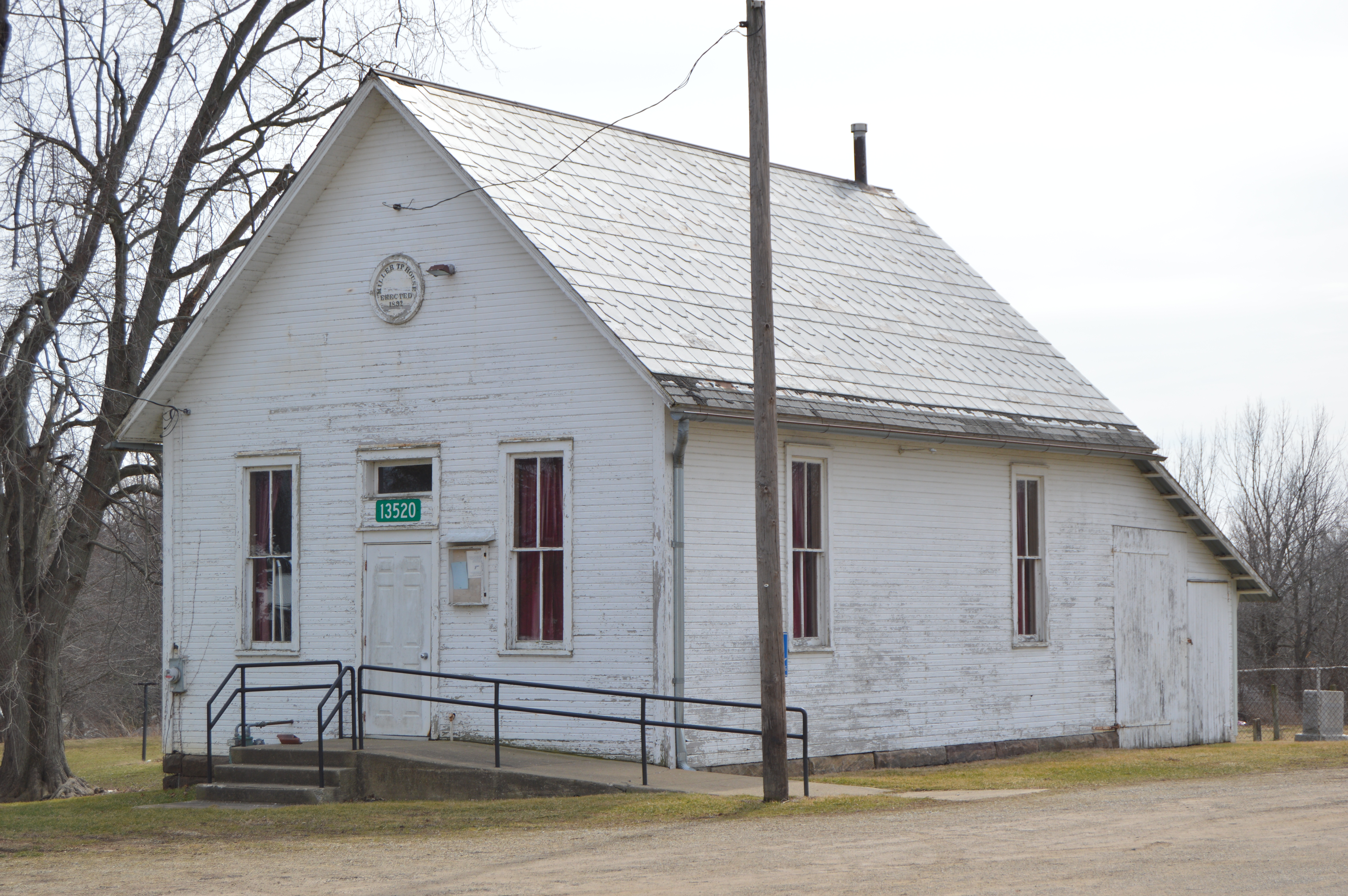 Front and western side of the Miller Township hall, located at 13520 Sycamore Road in Brandon, Ohio, United States.